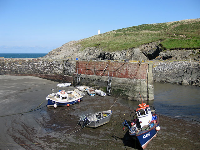 Harbour wall, Porthgain On the clifftop beyond is one of the white-painted markers used to guide ships into the harbour.